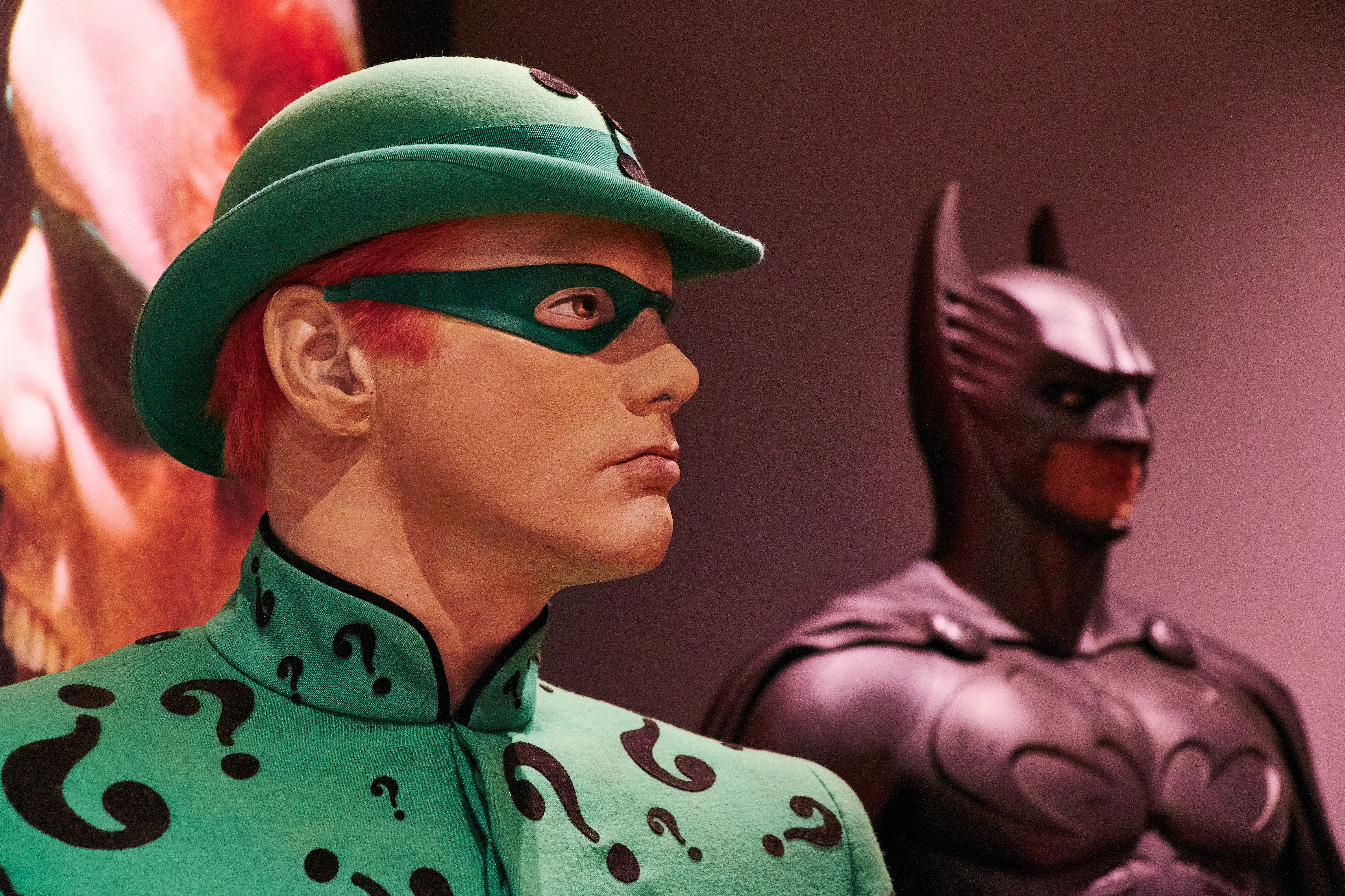 Warner Bros. Studios, Burbank, California, USA.